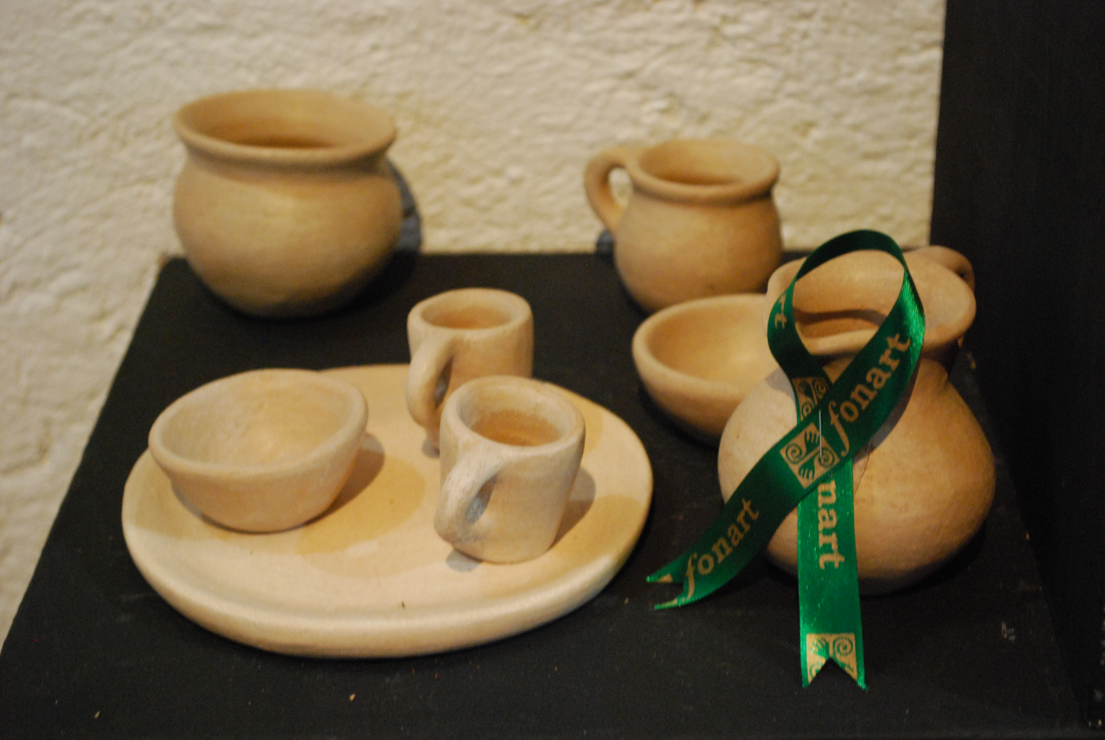 Toy dishes on display at the Museo de las Culturas Populares de Chiapas in San Cristobal de las Casas, Chiapas, Mexico